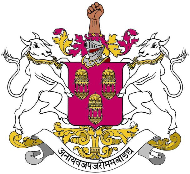 Coat of Arms of Dhrangadhra state Raj Saheb of ... Arms: Murray, three canopied niches Or. Crest: On a helmet to the dexter, lambrequined Murray and Or, a hand clenched proper, vested Or. Supporters: Two bulls proper. Motto: Anatha Vajrapanjaro Mama Bahuh (My Arm Protects the Defenceless)